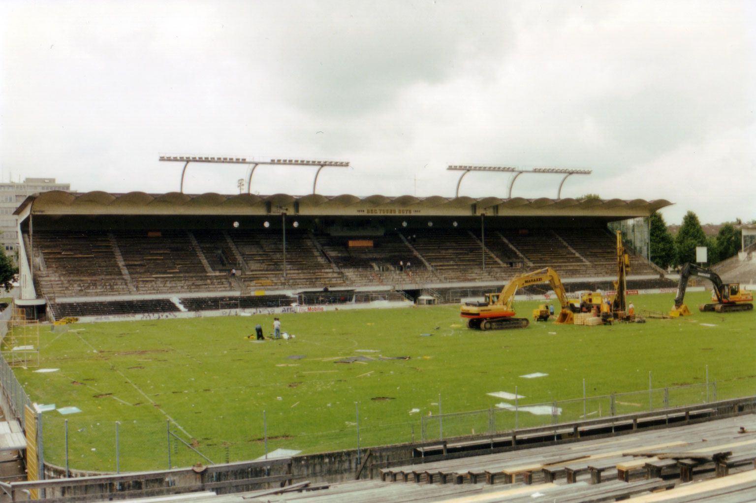 The demolition of the Wankdorf Stadium in Berne, Switzerland.